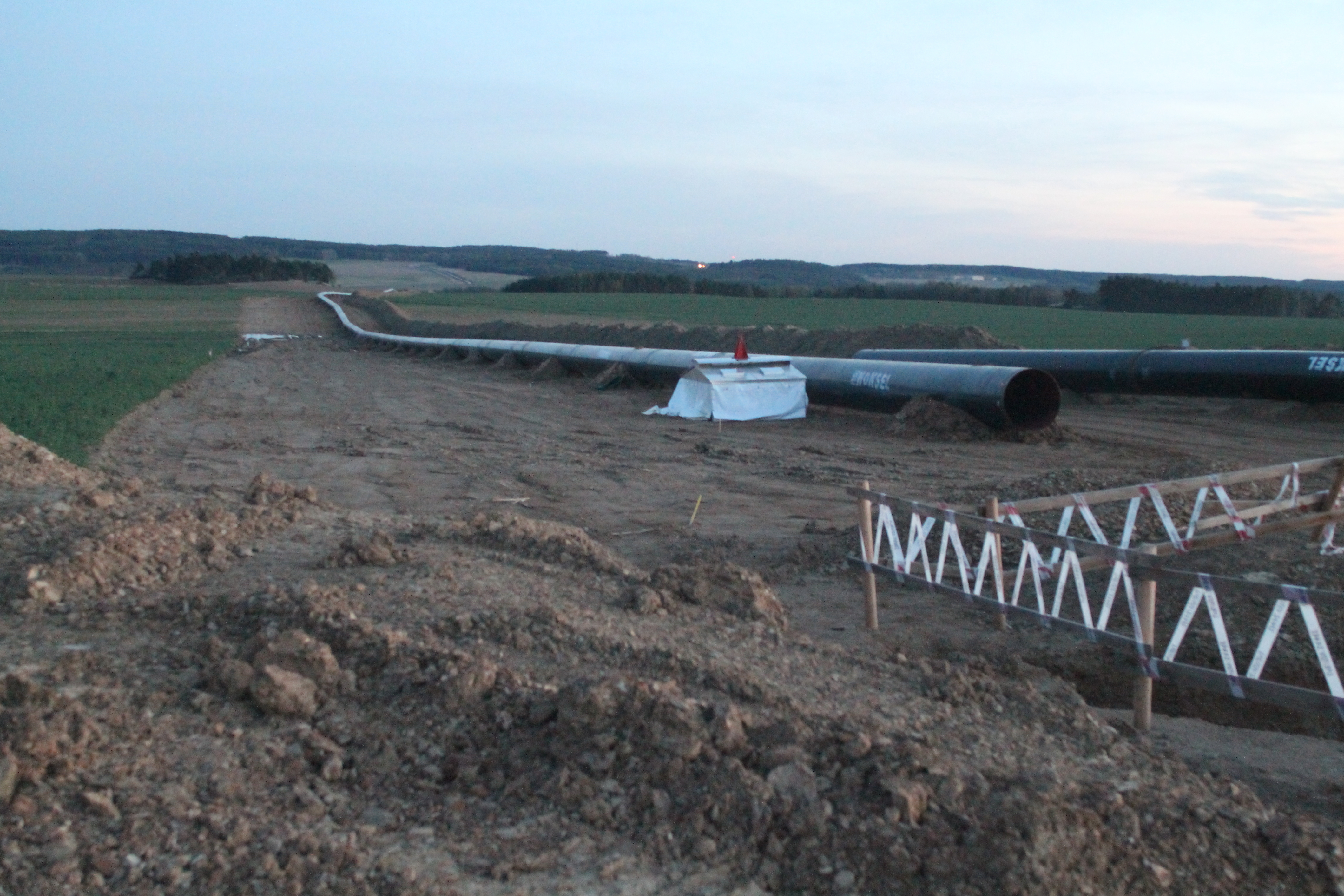 Pipeline "Gazela" under construction - OpenStreetMap(Info)